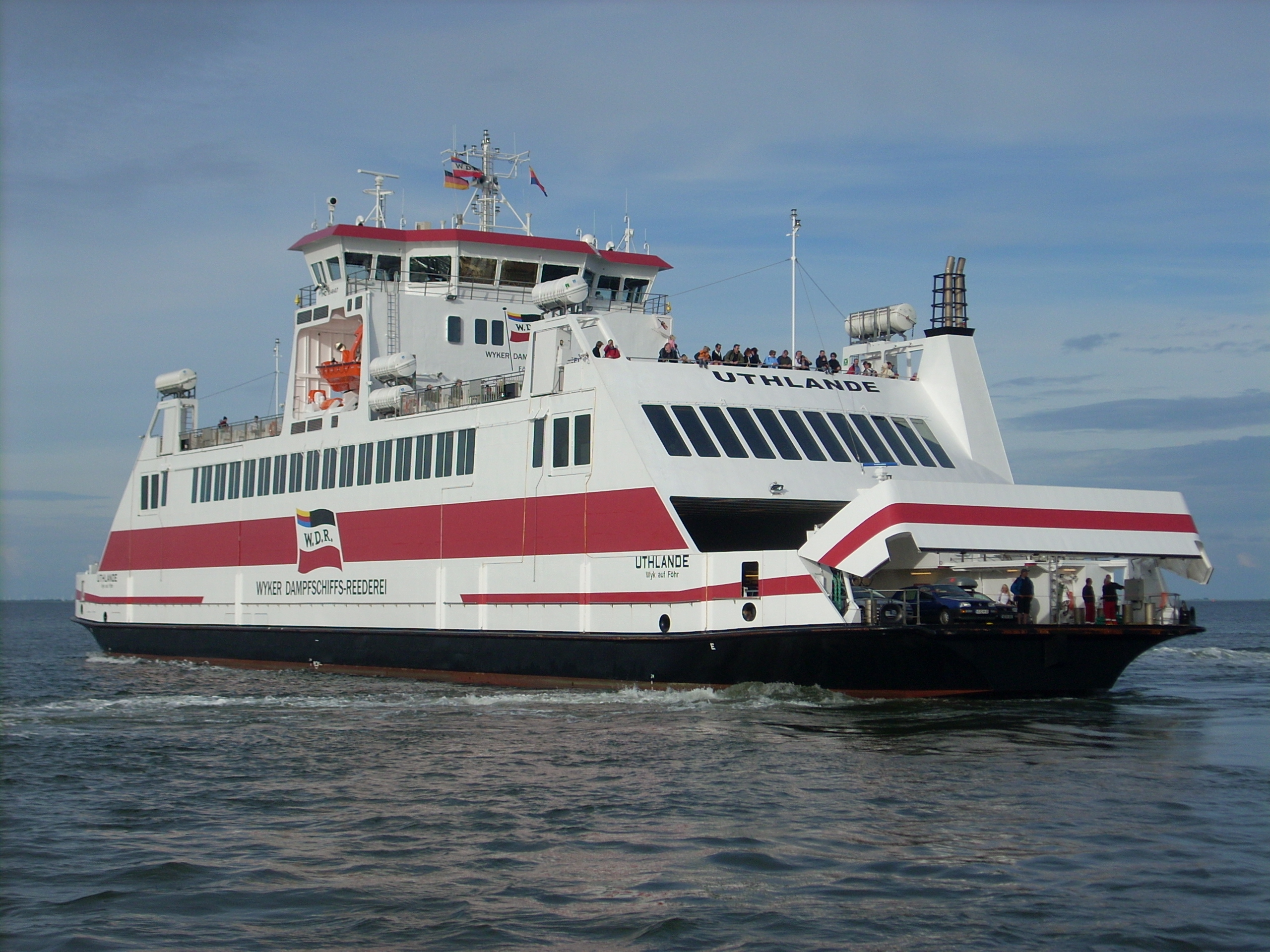 MV Uthlande